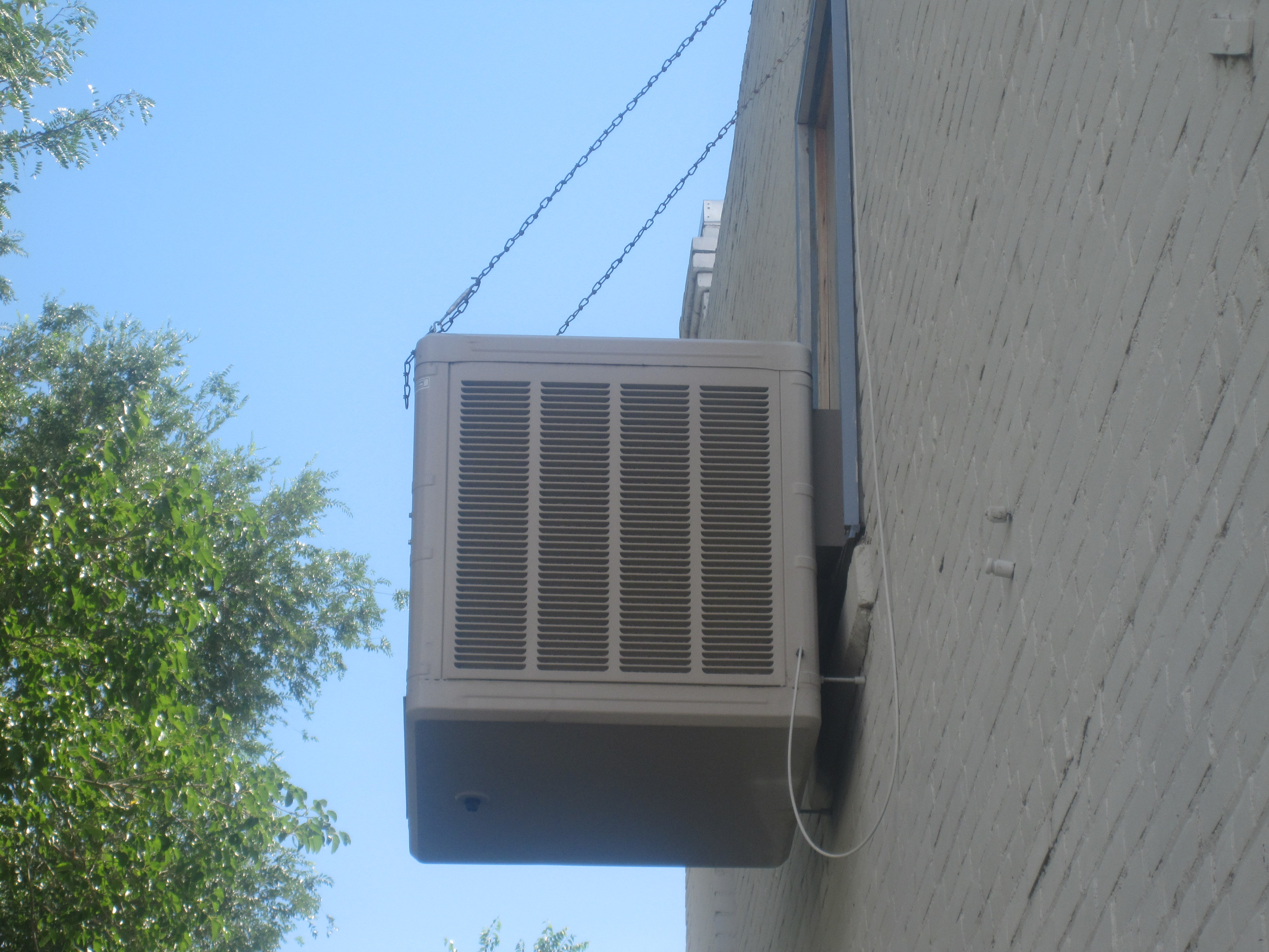 I took photo with Canon camera in Rocky Ford, CO.